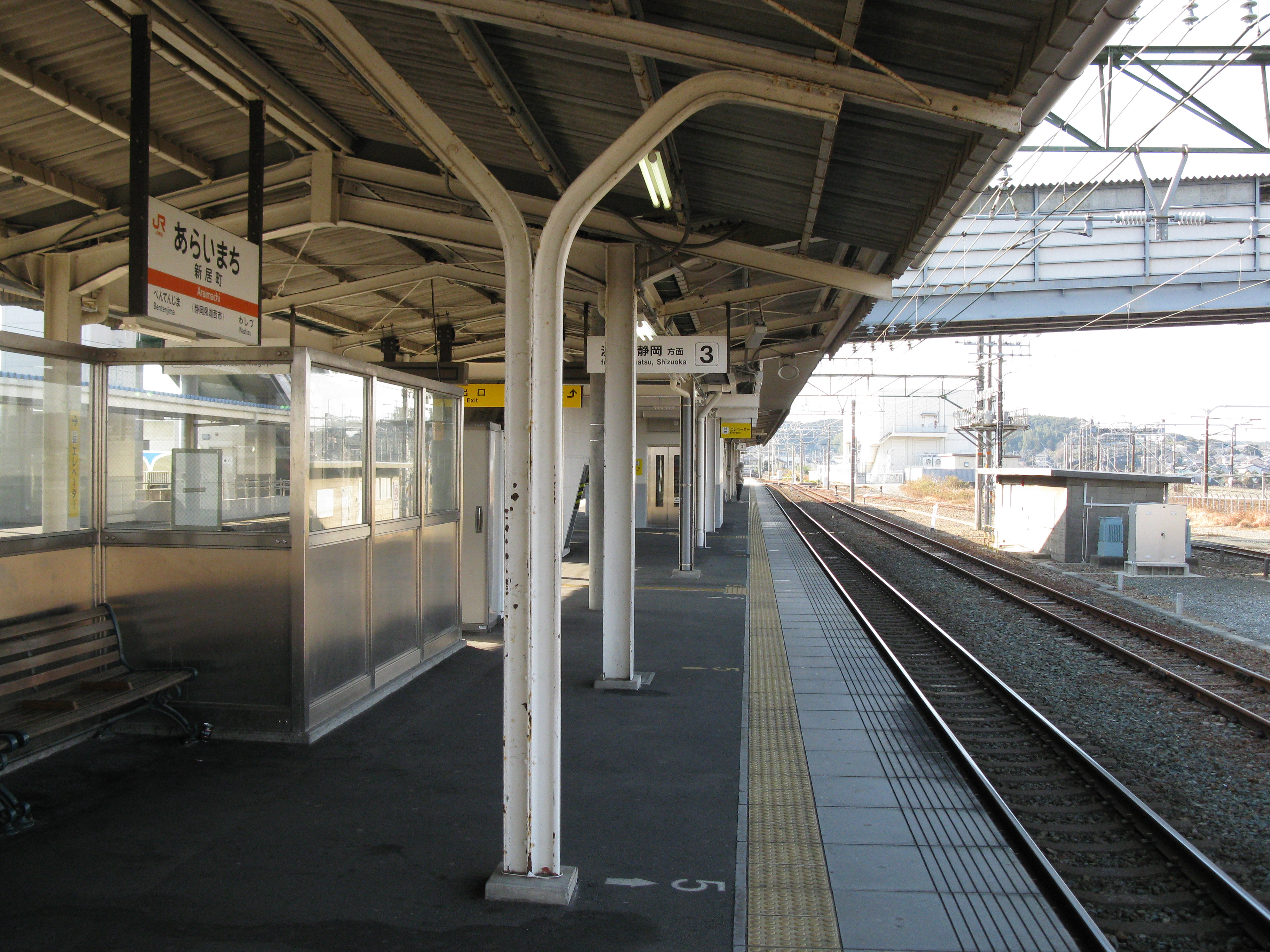 Araimachi Station no.3 platform (Central Japan Railway(JR Central) Tōkaidō Main Line)